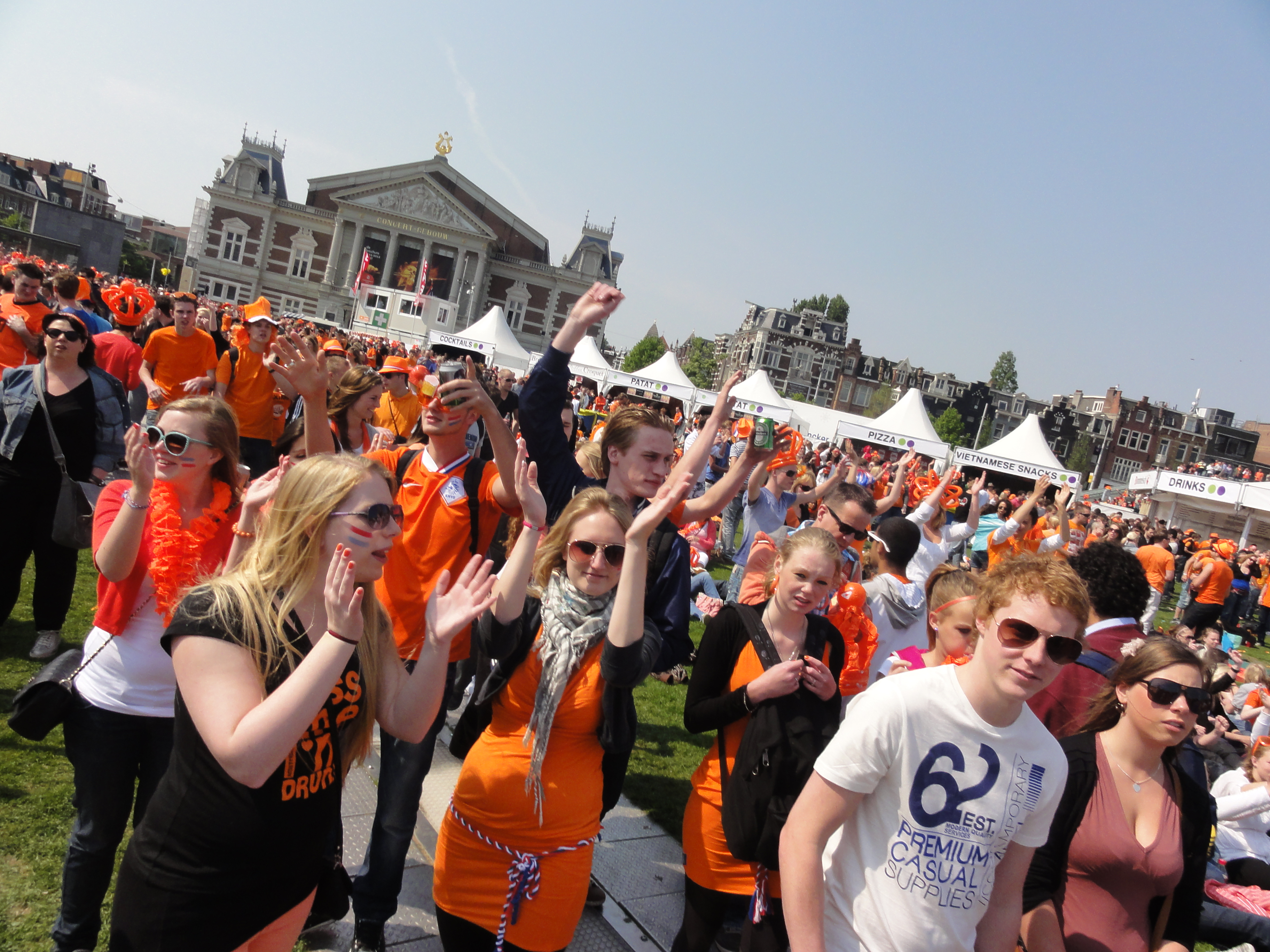 People in orange celebrating Queensday in Museumplein in Amsterdam.